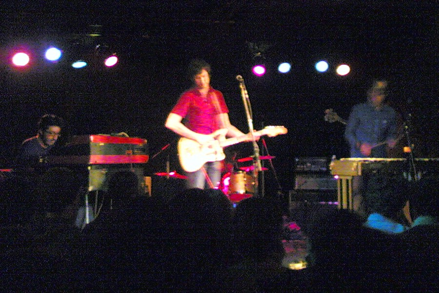 The American Analog Set